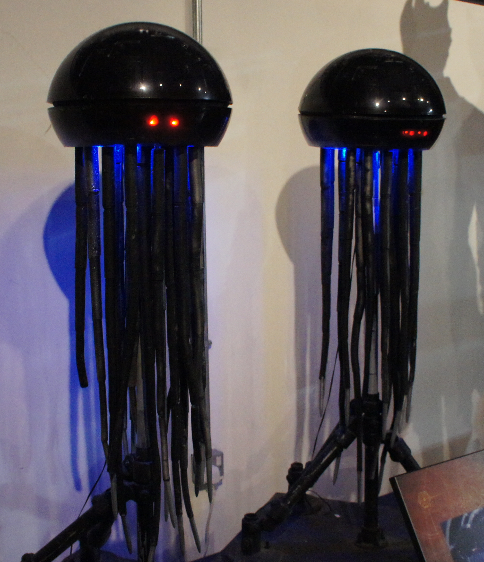 Doctor Who Experience Doctor Who Experience